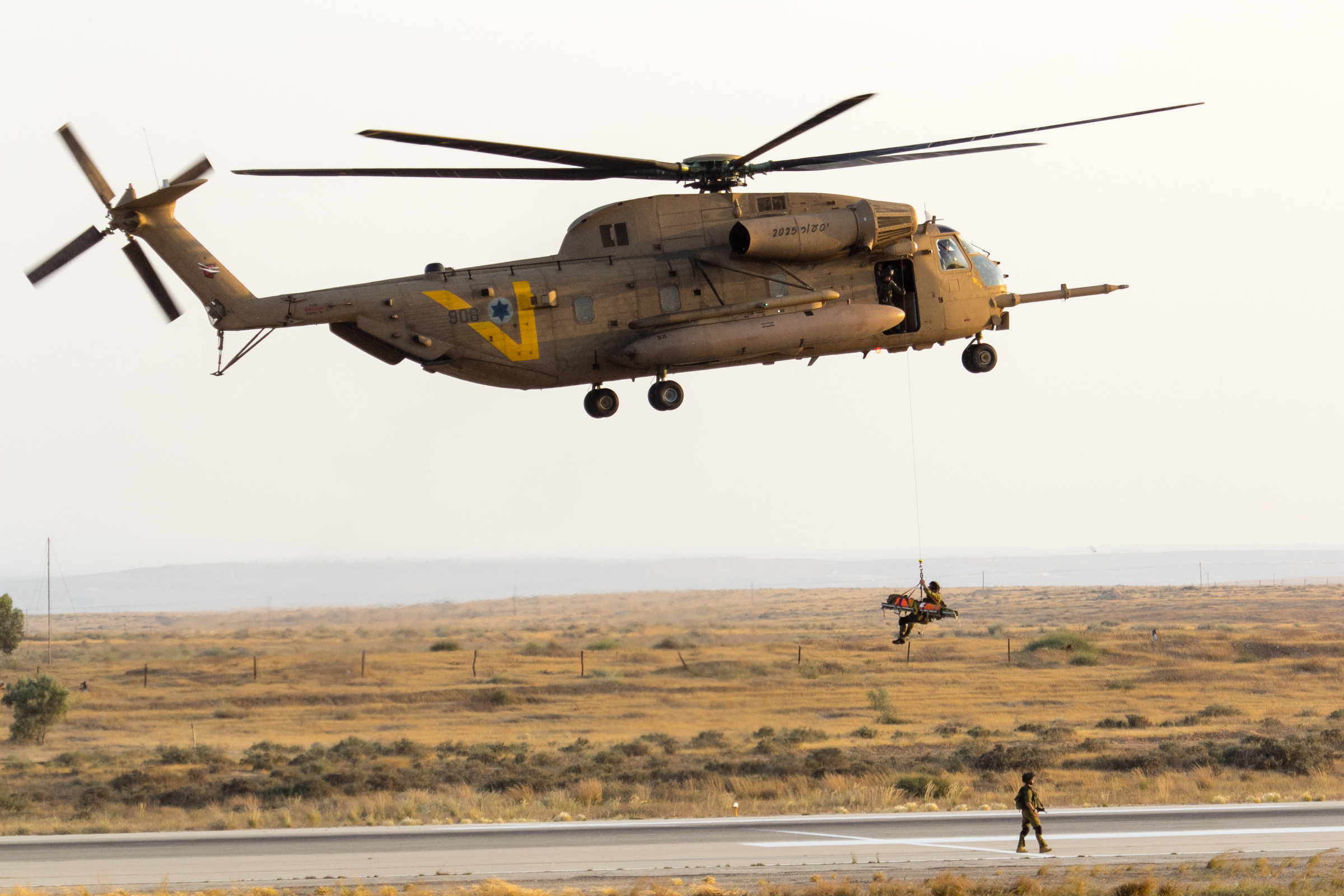 Israeli Air Force CH-53 Yas'ur demonstrating its CSAR capabilities with operators from the IAF's unit 669.